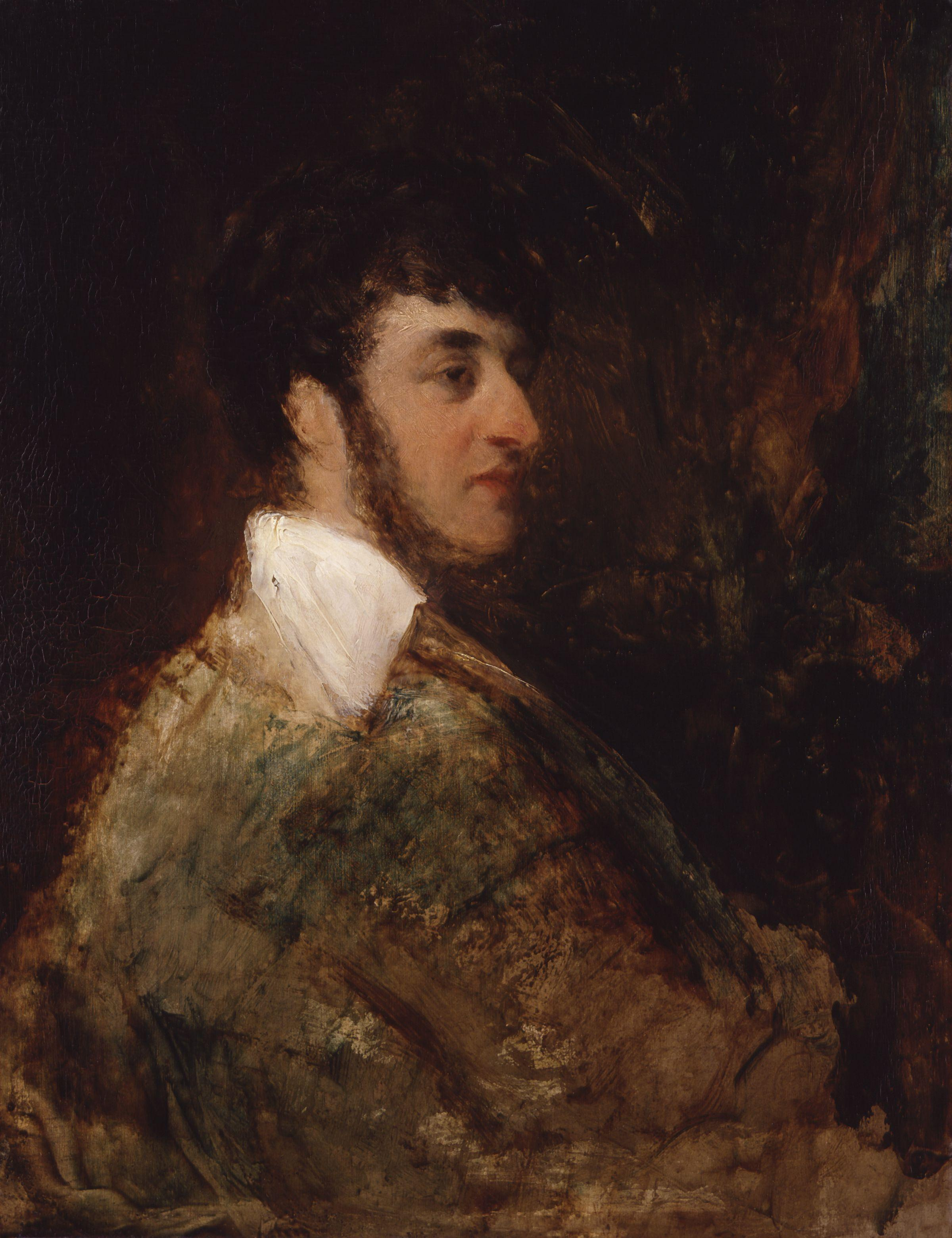 John Frederick Lewis, by Sir William Boxall (died 1879), given to the National Portrait Gallery, London in 1907. All images in this batch have been confirmed as author died before 1939 according to the official death date listed by the NPG.